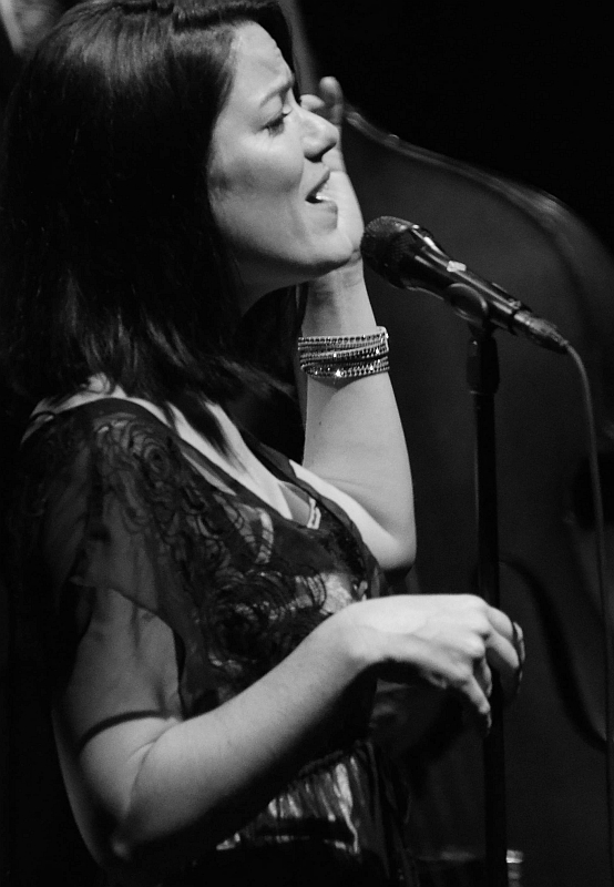 Emilie-Claire Barlow 2014